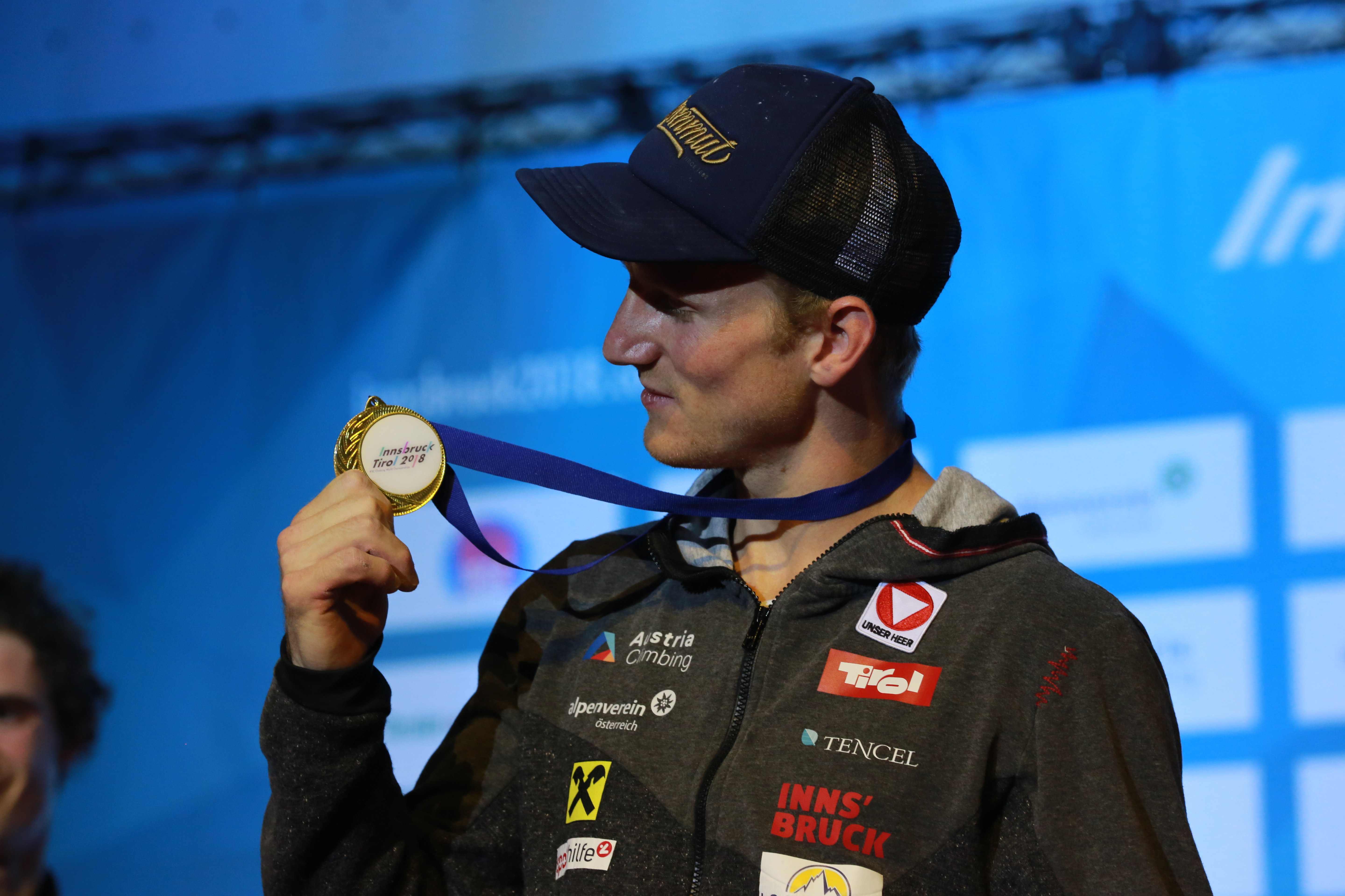 Climbing World Championships 2018 Combined Final Man winners